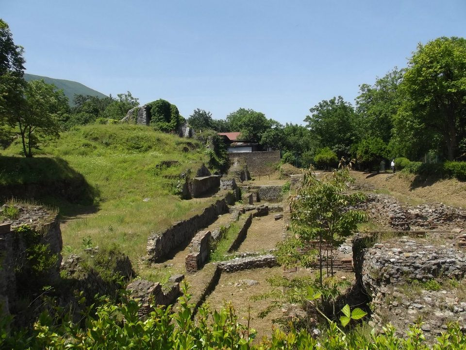 Theatre of Pareti, in Nocera Superiore, Italy.